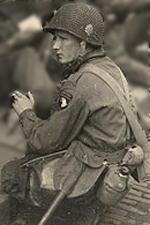 Pfc Joseph D Liebgott 506 E Co. 1st pltn